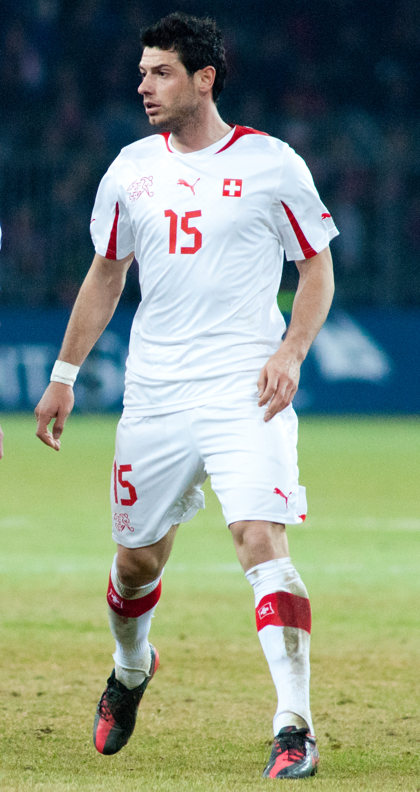 The making of this document was supported by Wikimedia CH.(Submit your project!) For all the files concerned, please see the category Supported by Wikimedia CH. Switzerland vs. Argentina, 29th February 2012